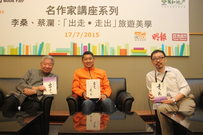 Lee Ee Hoe's new book launch at Hong Kong Book Fair 2015 with Chua Lam (left)